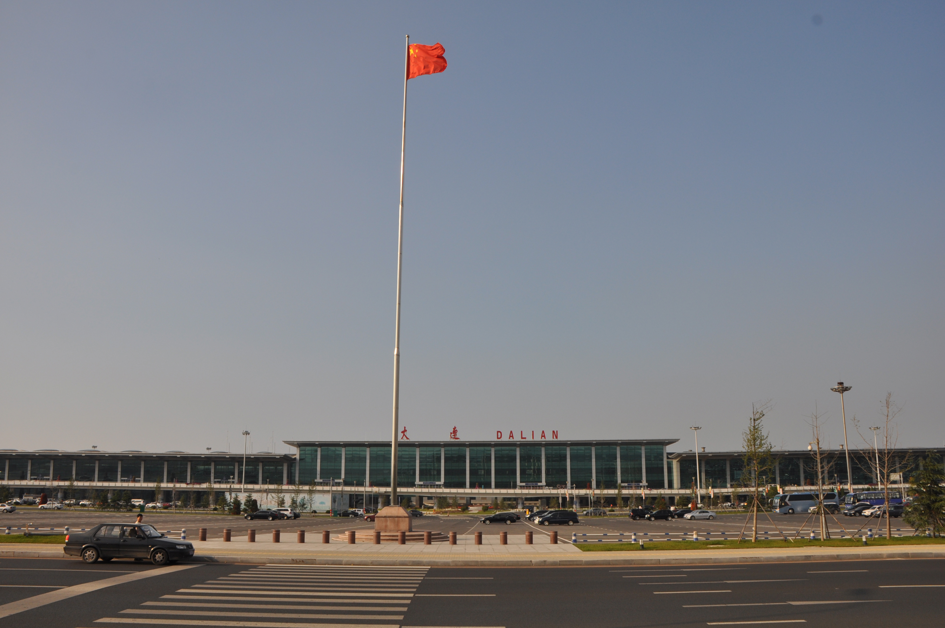 Dalian Zhoushuizi Airport, China